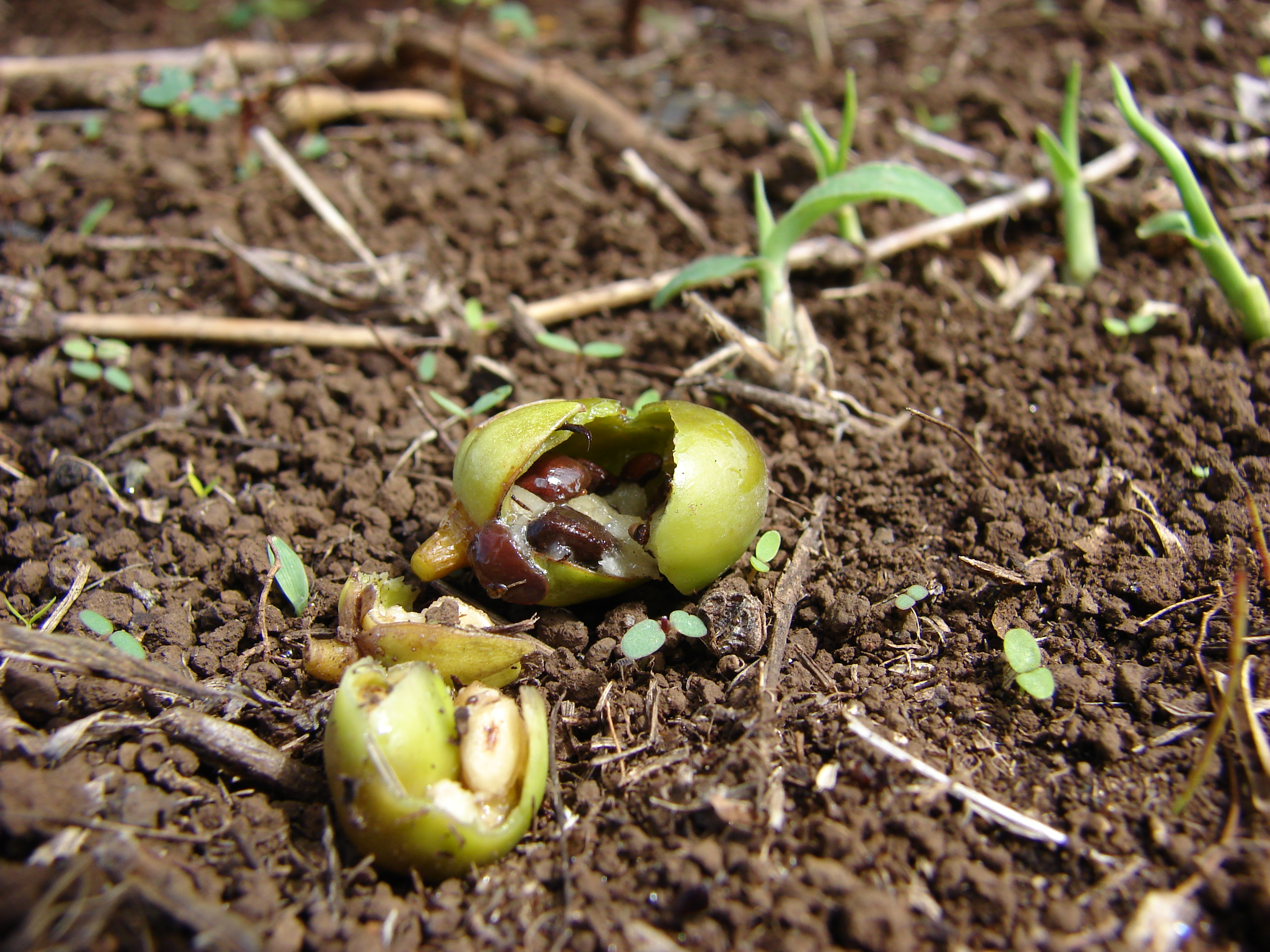 Brunfelsia australis (seeds in fruit broken apart). Location: Maui, Sun Yat Sen Park Keokea